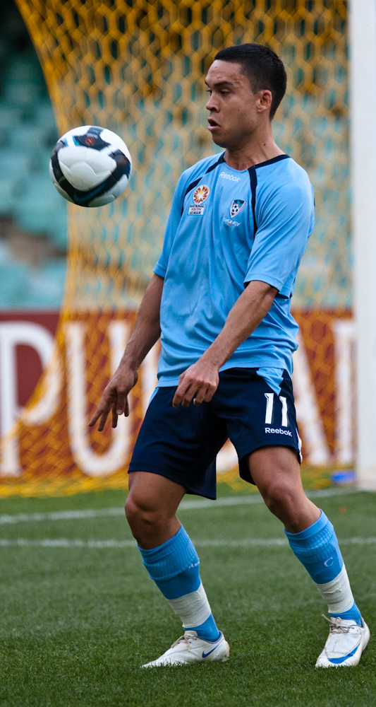 Iain Ramsay playing for the Sydney FC Youth Team at the Sydney Football Stadium.